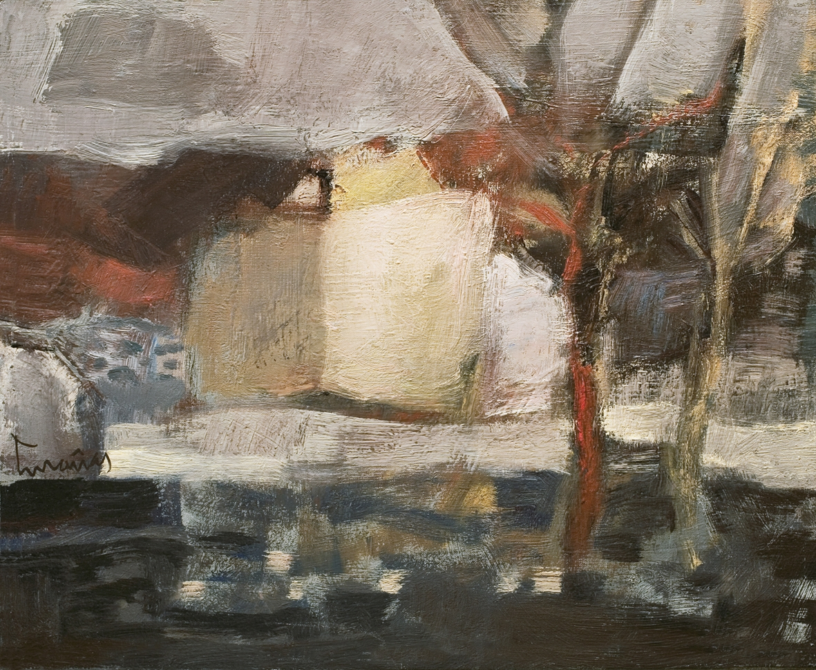 Structures, oil by Josep Cruañas